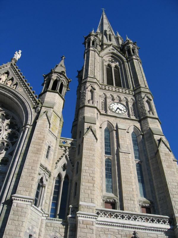 Tower of St Colman's Cathedral, Cobh, County Cork, Ireland